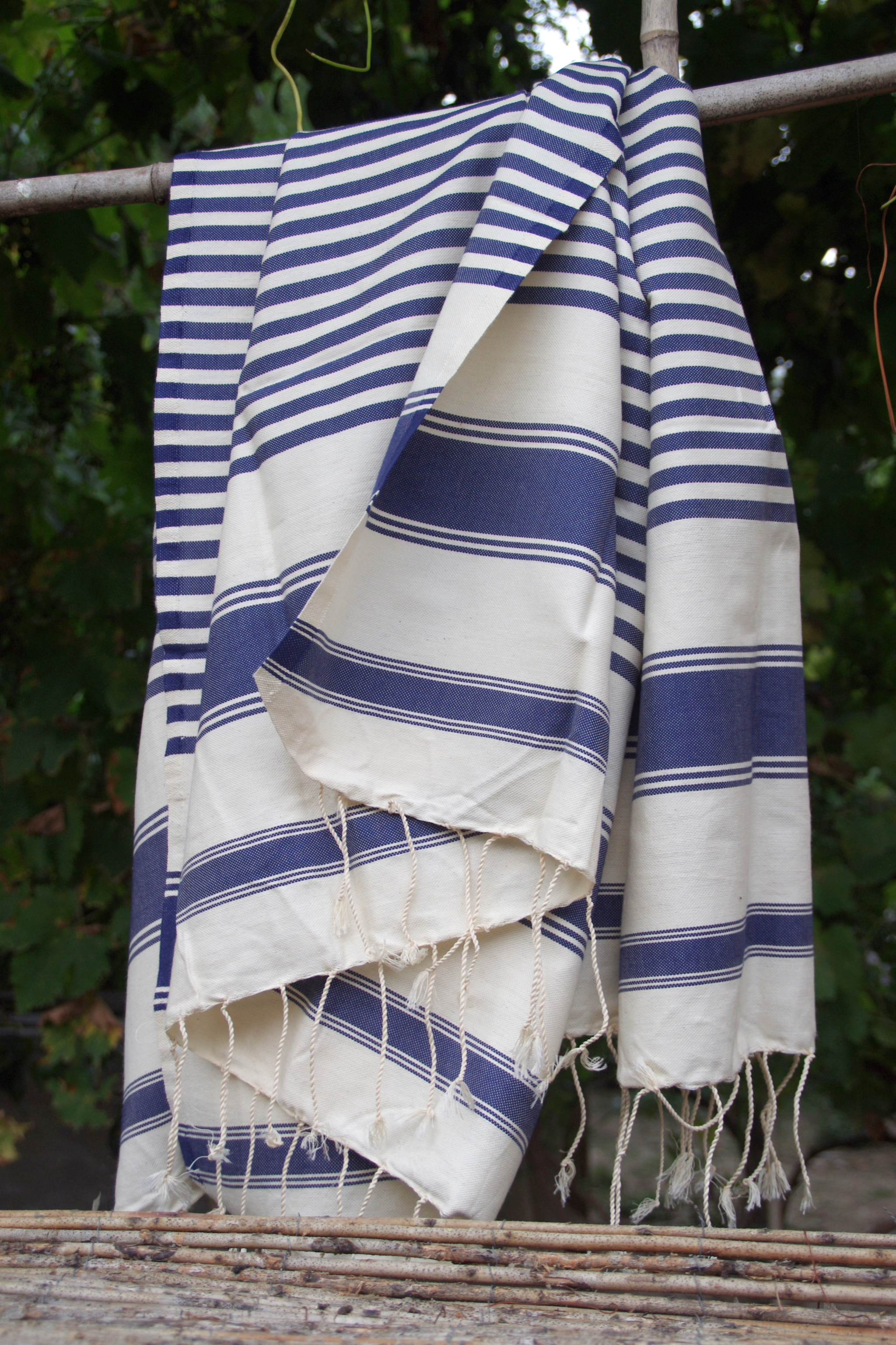 Fouta or hammam towel of 1,80 m x 1 m.